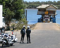 A cheap method of building houses on Russell Island in Moreton Bay, Queensland, Australia, is to import old mining town houses by barge, escorted by police along the islands roads and then rennovate. Builders lodge a large bond with Redland Council to ensure that the work is completed to an acceptable standard. Hundreds have been imported.